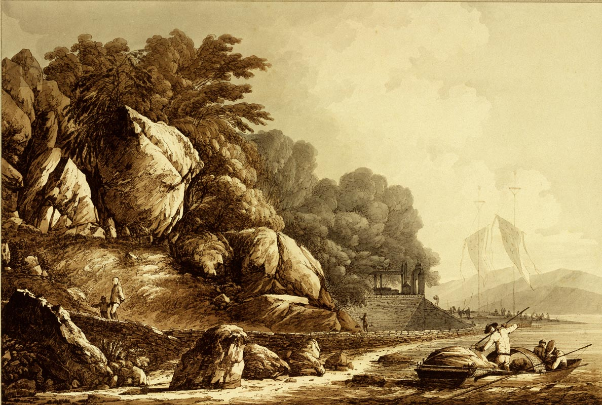 Inner Harbor of Macao and Ma Kok Temple, 1788.